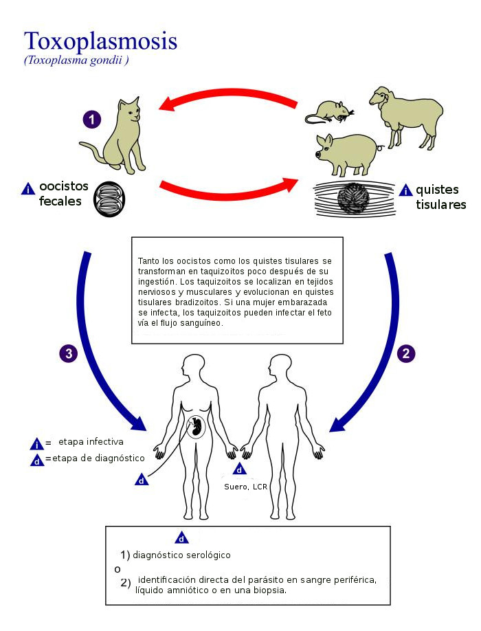 This is an illustration of the life cycle of Toxoplasma gondii, the causal agent of Toxoplasmosis. For a complete description of the life cycle of Toxoplasma gondii, the causal agent of Toxoplasmosis, select the link below the image or paste the following address in your address bar